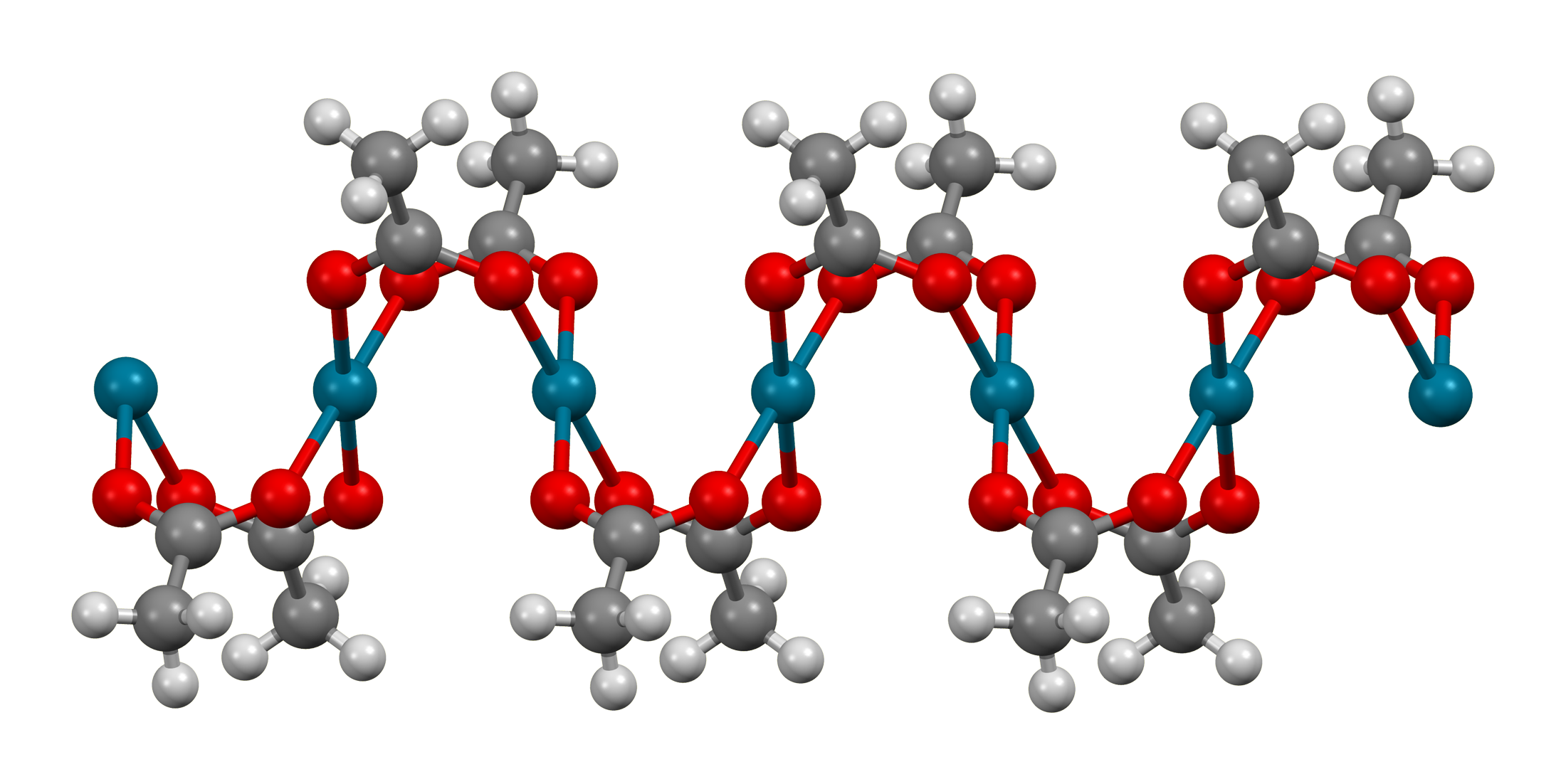 Ball-and-stick model of the linear polymeric form of palladium(II) acetate, Pd(OAc)2, as found in the crystal structure reported in Acta Cryst. (2004) C60, m449–m450. Colour code: Carbon, C: grey Hydrogen, H: white Oxygen, O: red Palladium, Pd: greenish-blue Model manipulated and image generated in CCDC Mercury 3.8.